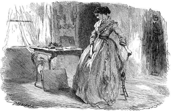 Bella Wilfer, described as The Boofer Lady by little Johnny